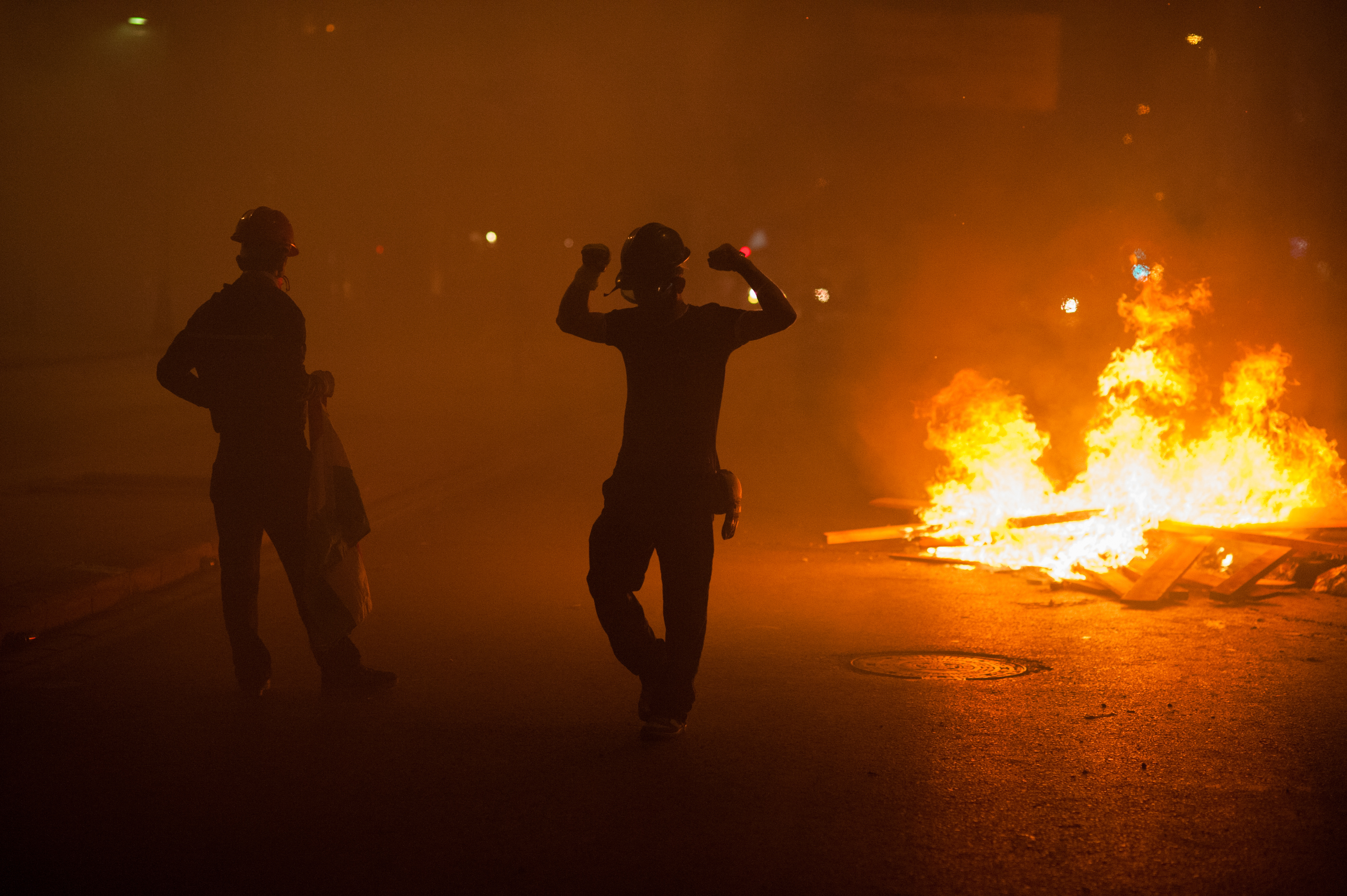 Protesters action during Gezi park night protests. Events of June 15, 2013.